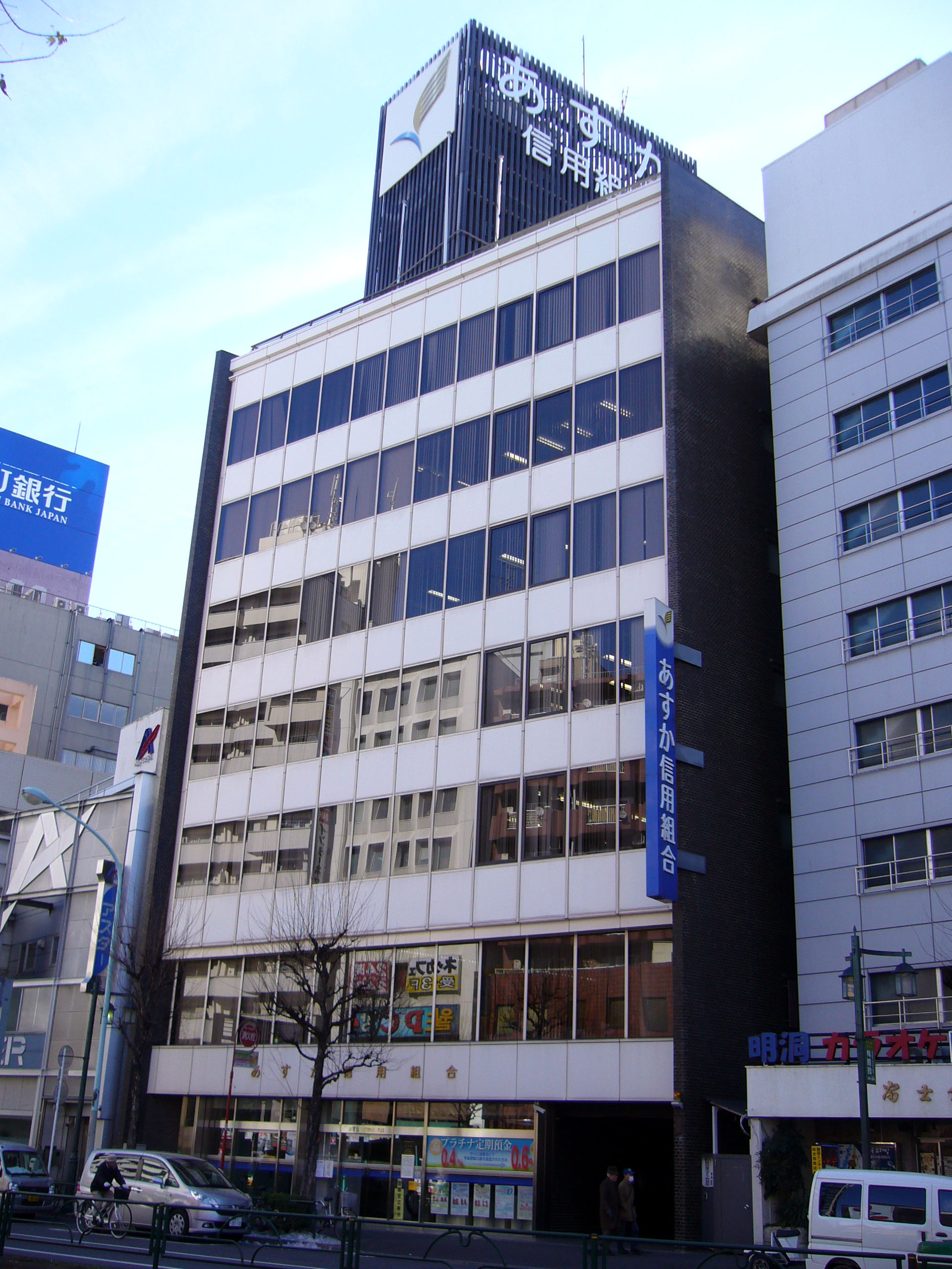 Asuka Credit Cooperative (Japanese credit association) Head Office